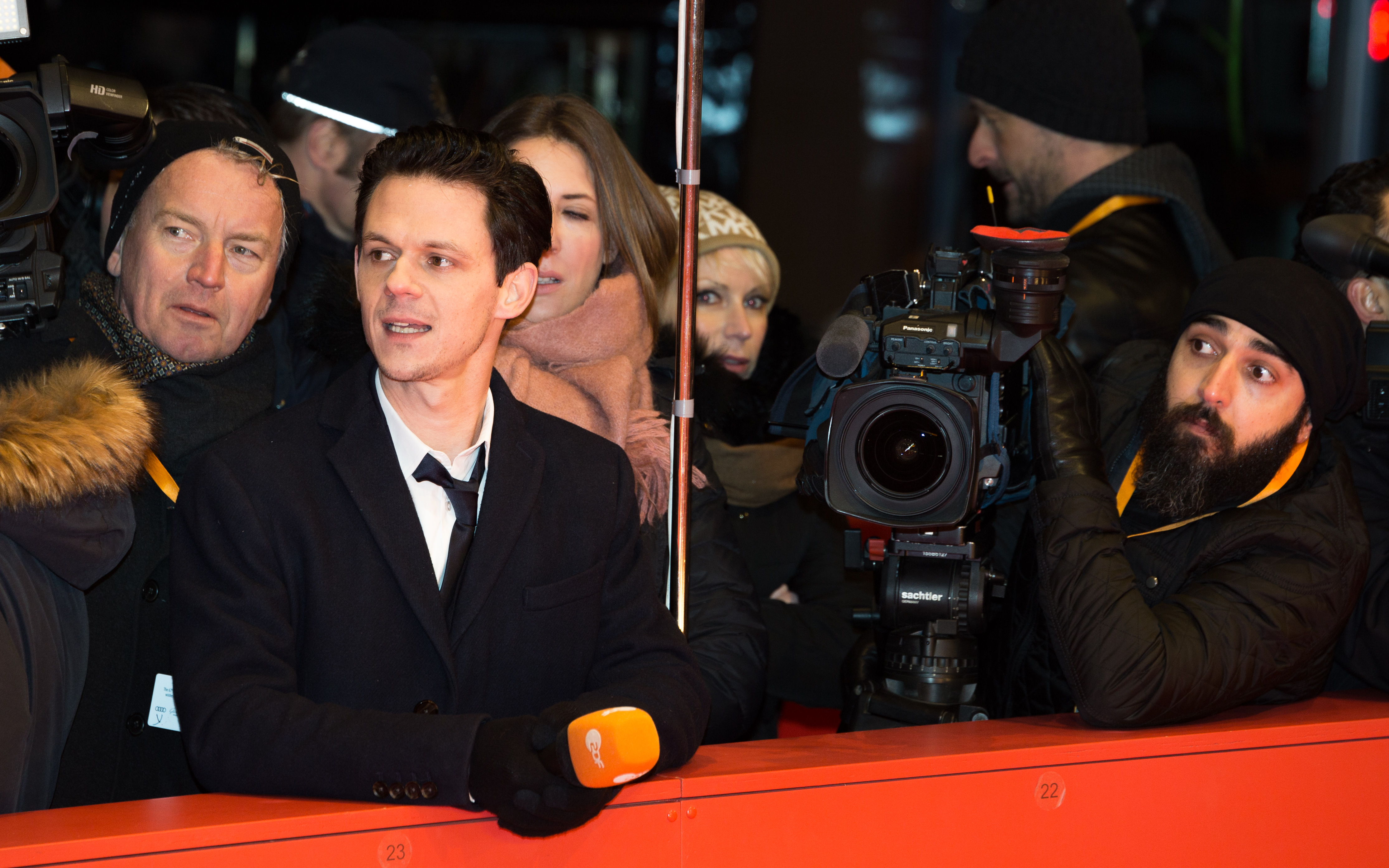 Jo Schück at the red carpet of the Berlinale 2017 opening film